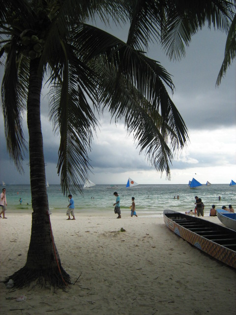 A Coconut tree at Boracay, Philippines